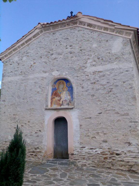 Porechki monastery, Poreche region, Republic of Macedonia